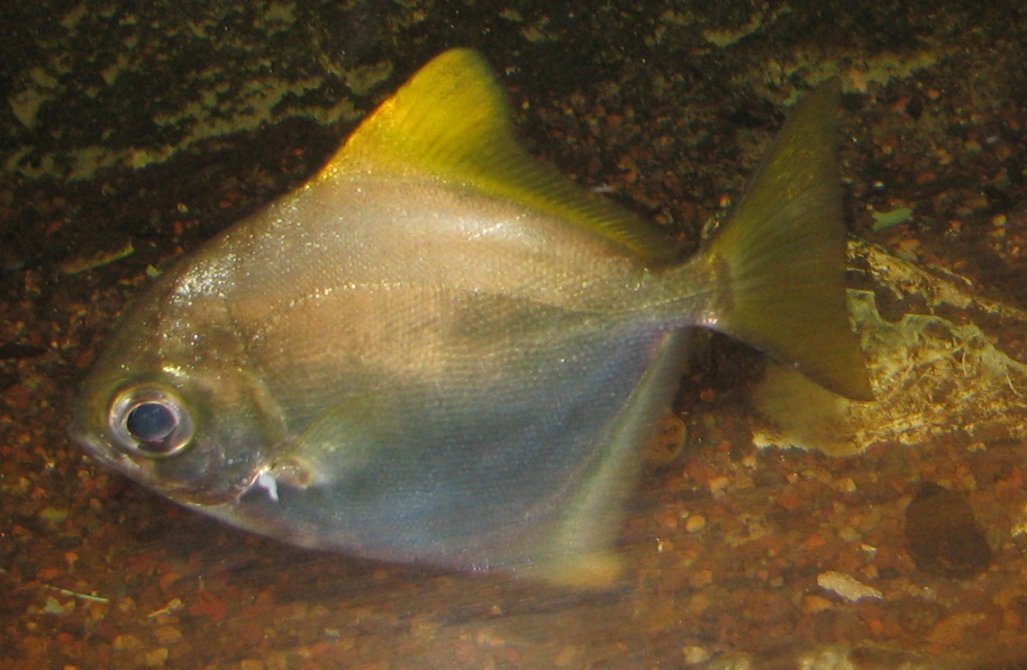 Monodactylus argenteus at Louisville Zoo